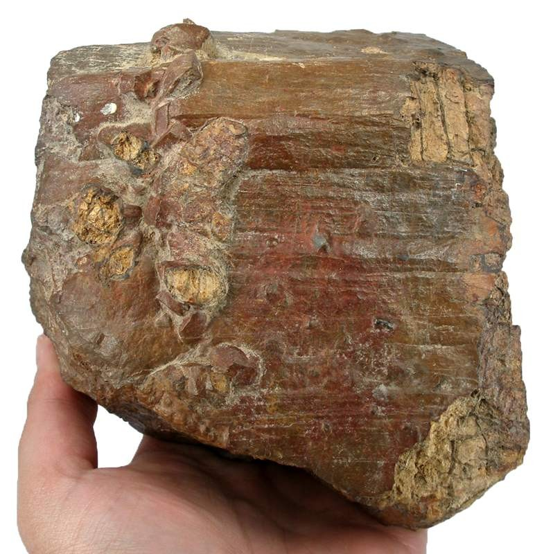 Davidite Locality: Luswishi River, South East Solwezi, North-Western Province, Zambia (Locality at ) Size: 15.5 x 14.9 x 10.3 cm. At over 8 pounds in weight, massing nearly 4 kilograms, this is a huge crystal. So far as I am aware, it is the world's largest crystal of the species…certainly none is reported in the literature I can find (including for this old locale) which competes. Not a great beauty, but its not as dull and earthy as most davidites anyhow, and it is well-crystallized on 3 sides (and partially so on others). An important, rare specimen from a find that I certainly had never even seen one piece from before. This was locked away in a university study drawer since its discovery in the 1970s.